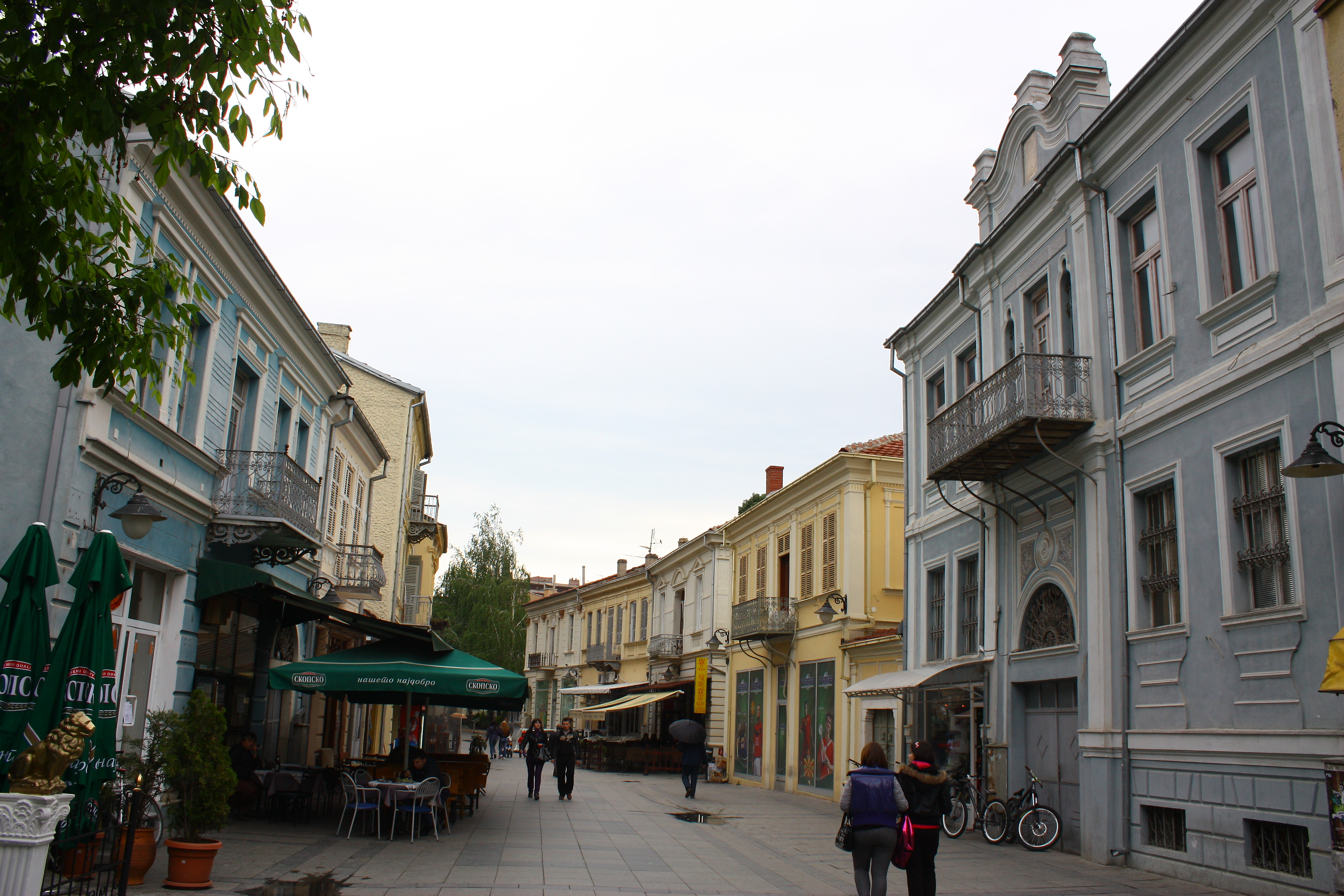 Bitola, Macedonia